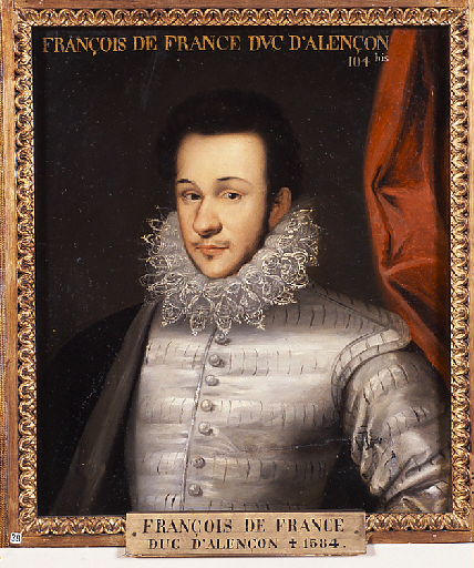 Portrait of Francis, Duke of Anjou (1555-1584)